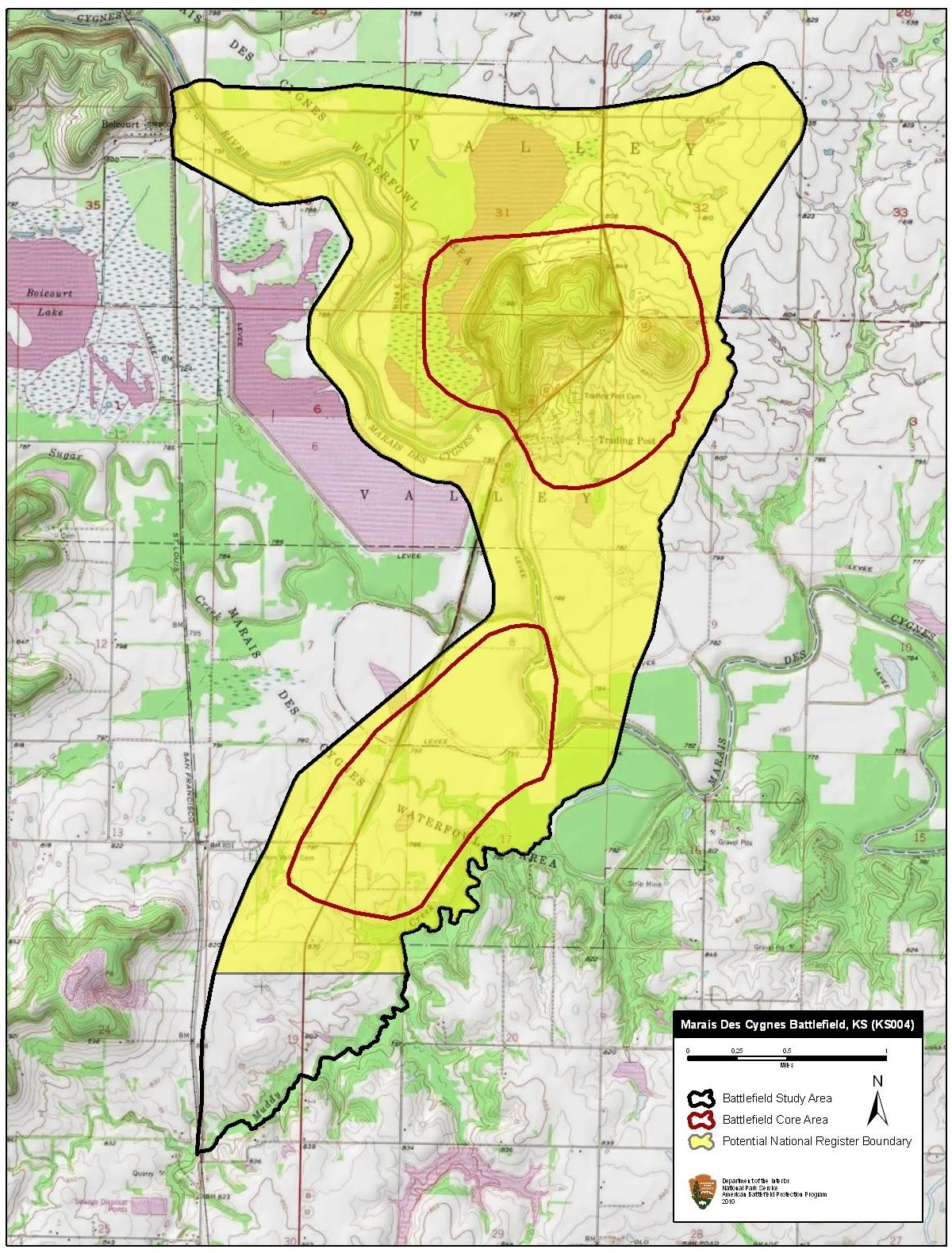 Map of battlefield core and study areas.